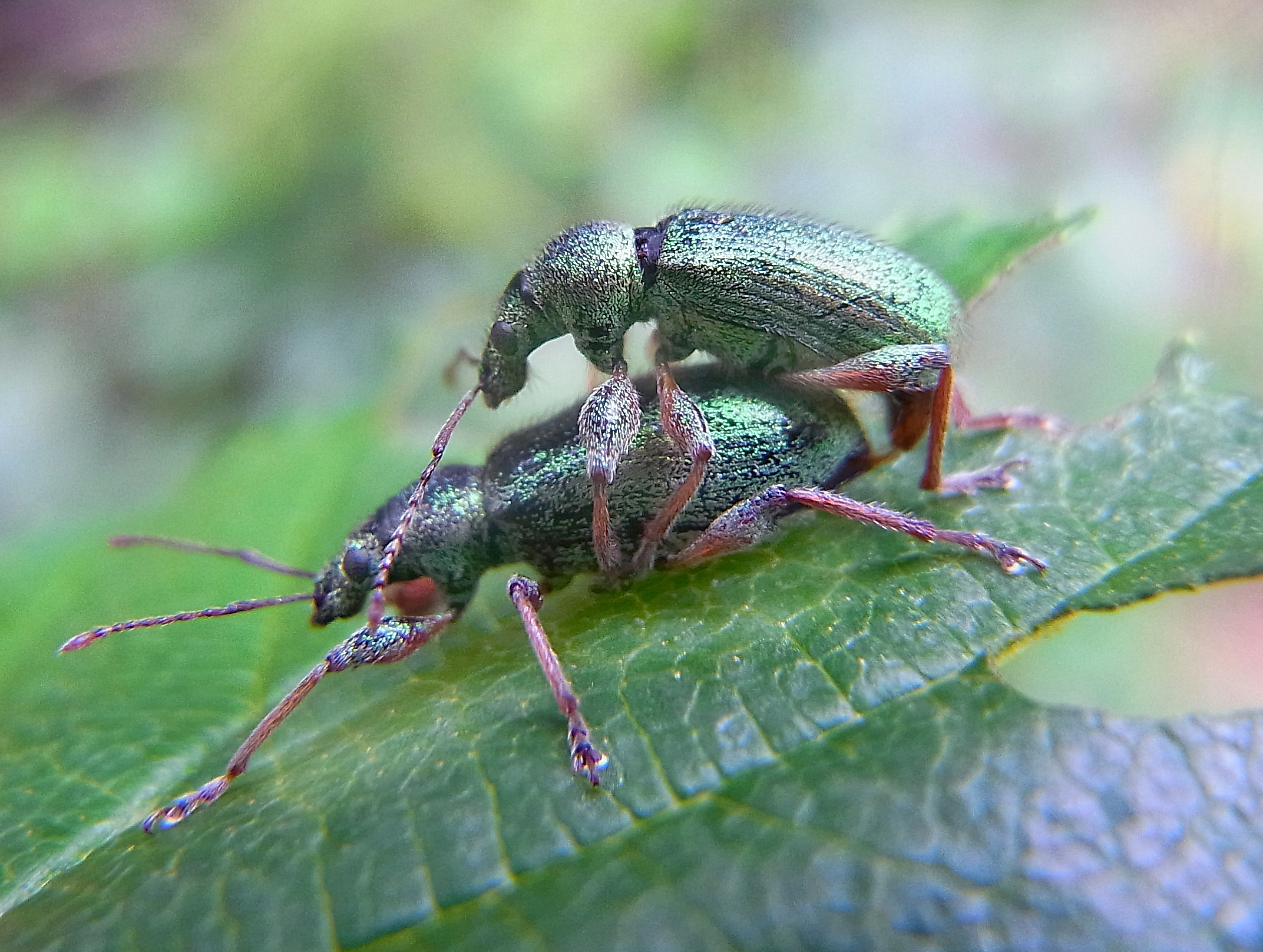 Phyllobius arborator from Austria near Tamsweg at 2012-07-14